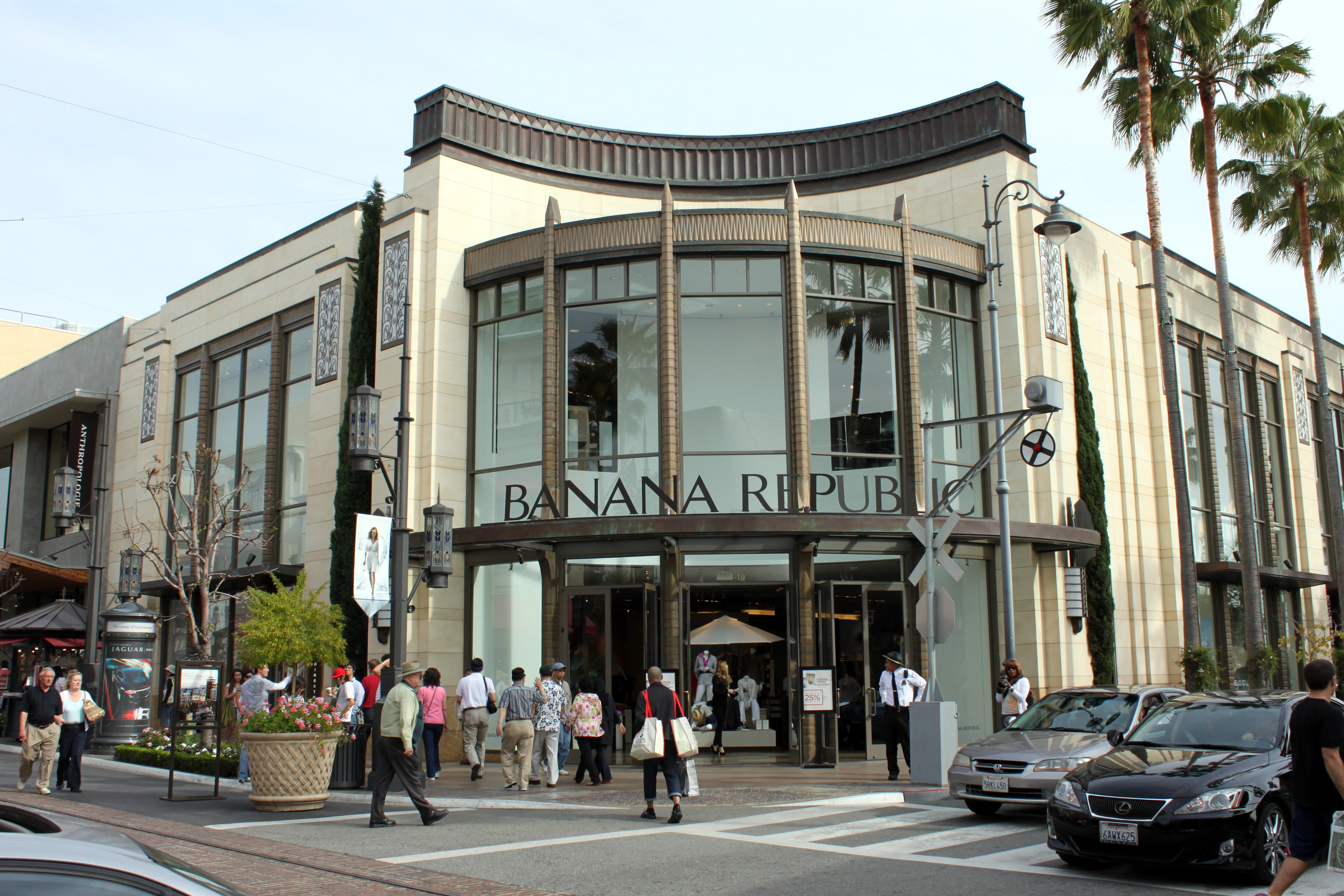 The Grove ~ Fairfax Down Town Los Angeles, California